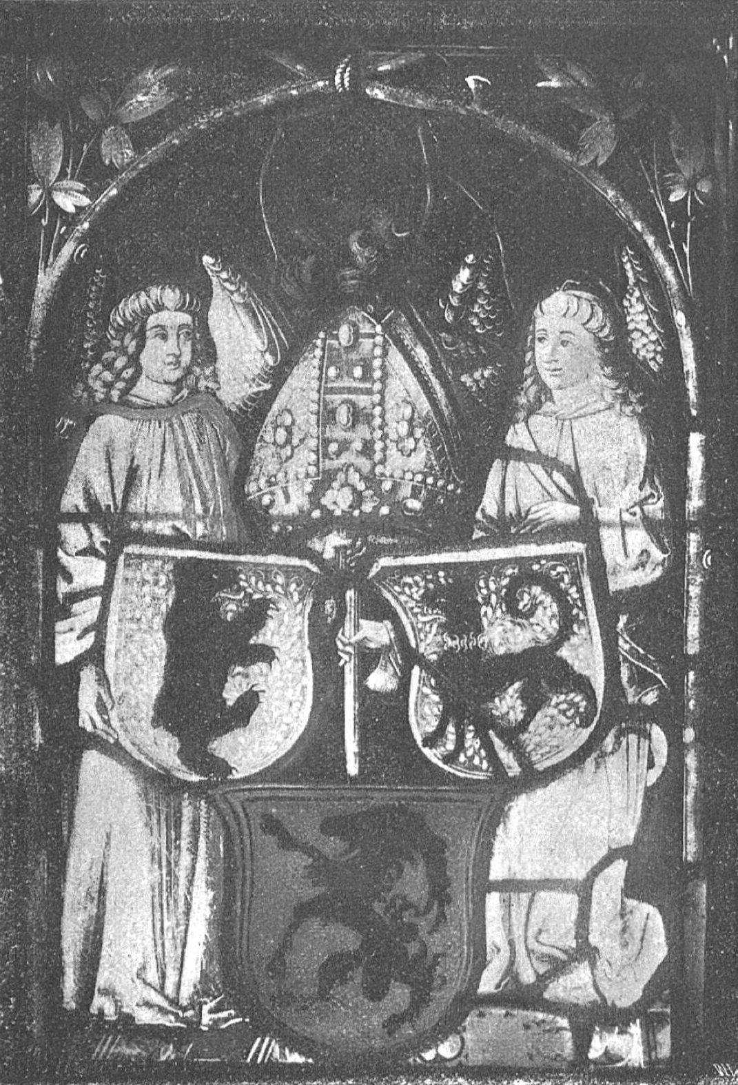 Heraldic stained glass panels of Abbot Franz Gaisberg